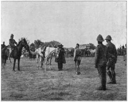 The Boer general Piet Conje surrenders to the British after the Battle of Paardeberg